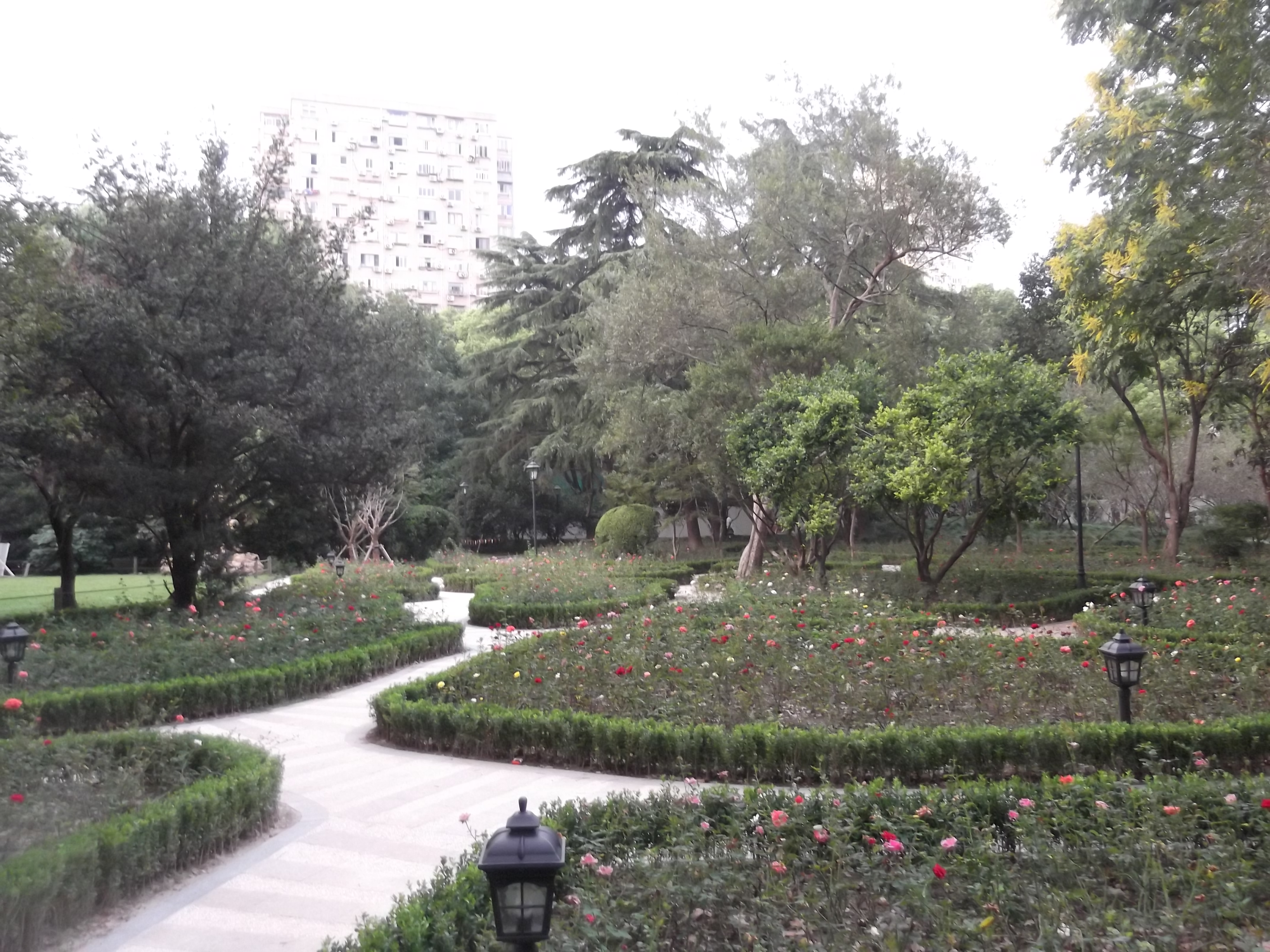 View in Zhongshan Park, Shanghai, China.